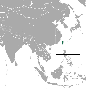 Ryukyu Flying Fox (Pteropus dasymallus) range